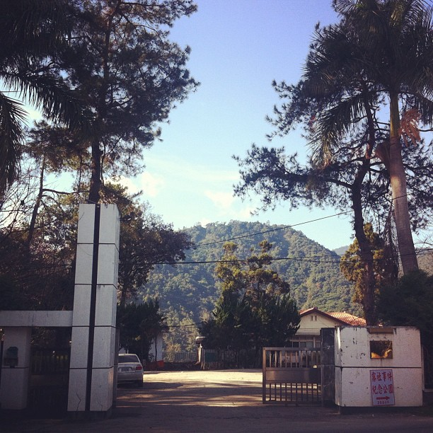 Second Office, Wanda Hydropower Plant, Taiwan Power Company. The flashpoint of the Wushe Incident.